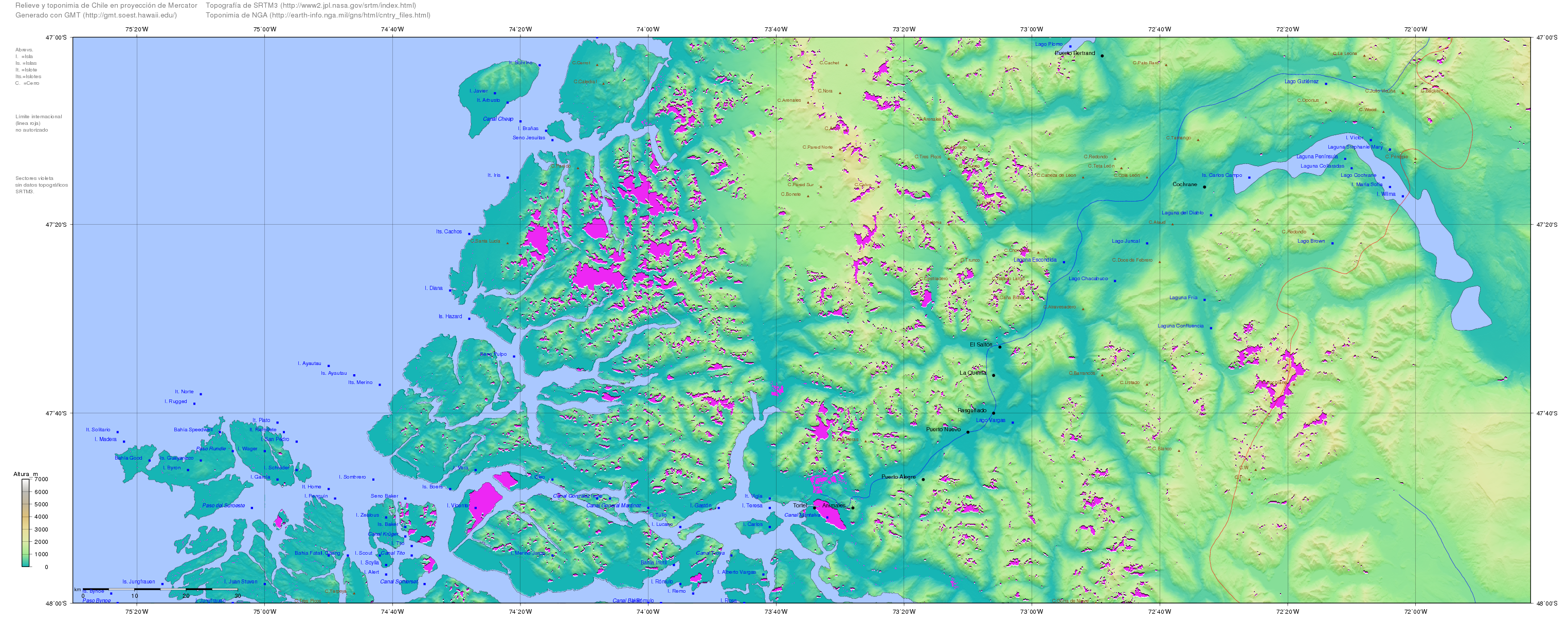 Map of Chile generated with GMT ( topography from SRTM ftp://e0srp01u.ecs.nasa.gov/srtm/version2/SRTM3/ and toponymy from